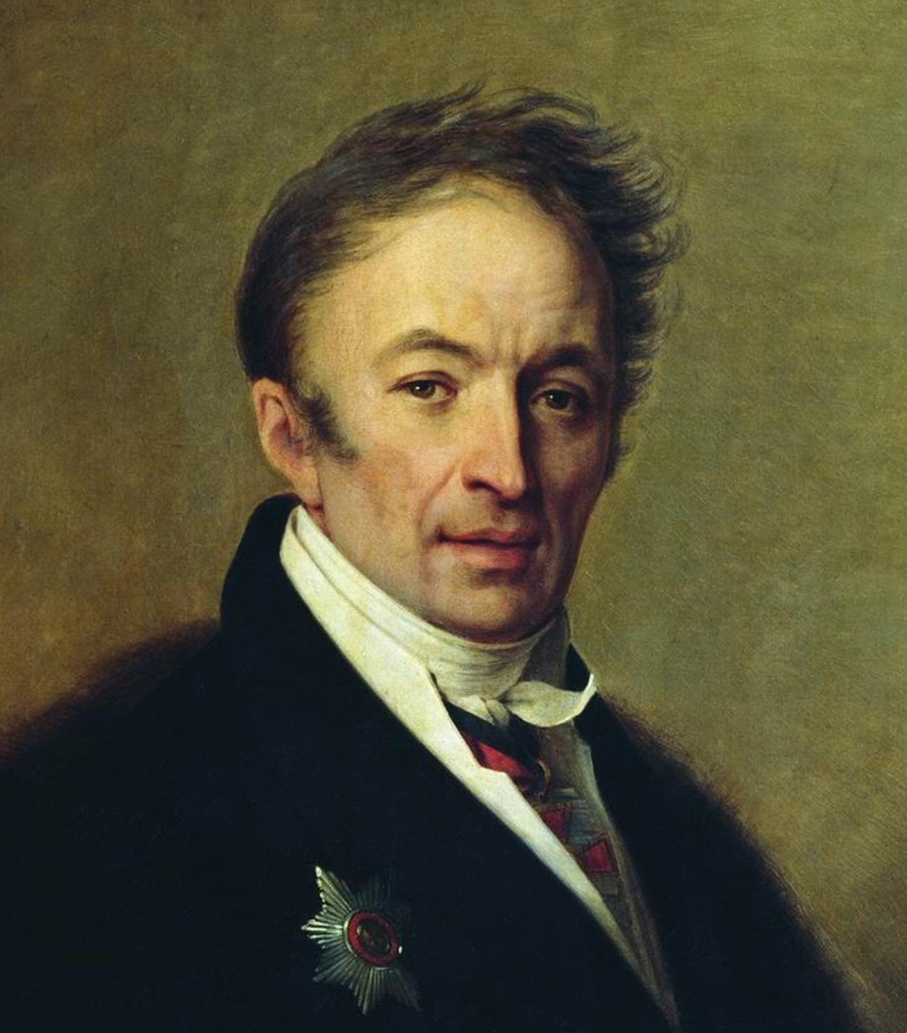 Nikolai Michailowitsch Karamsin (1766-1826)